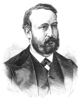 Lithograph of the Catalonian painter Francisco Sans Cabot, from La Ilustracion Española y Americana (1881)